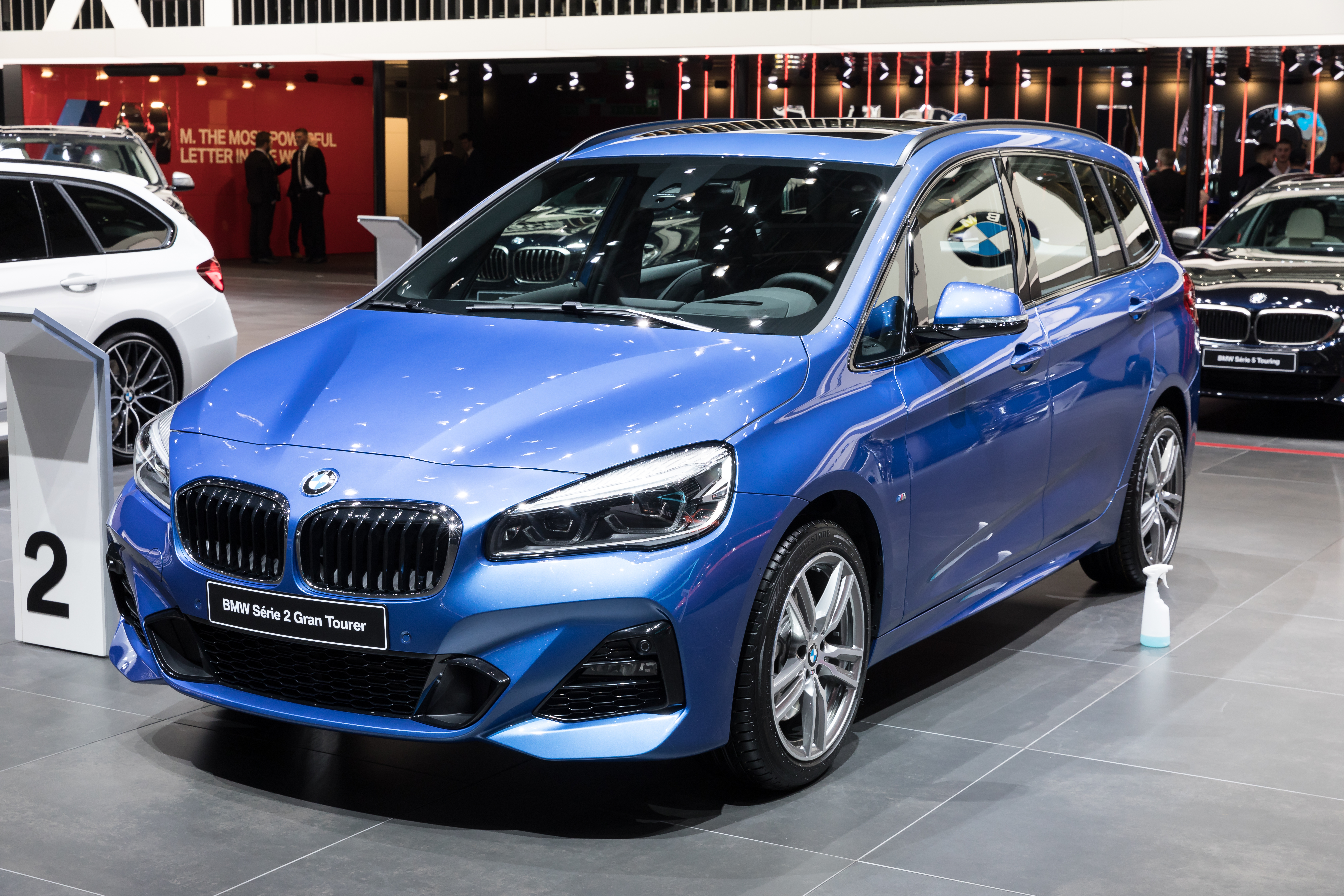 Geneva International Motor Show 2018